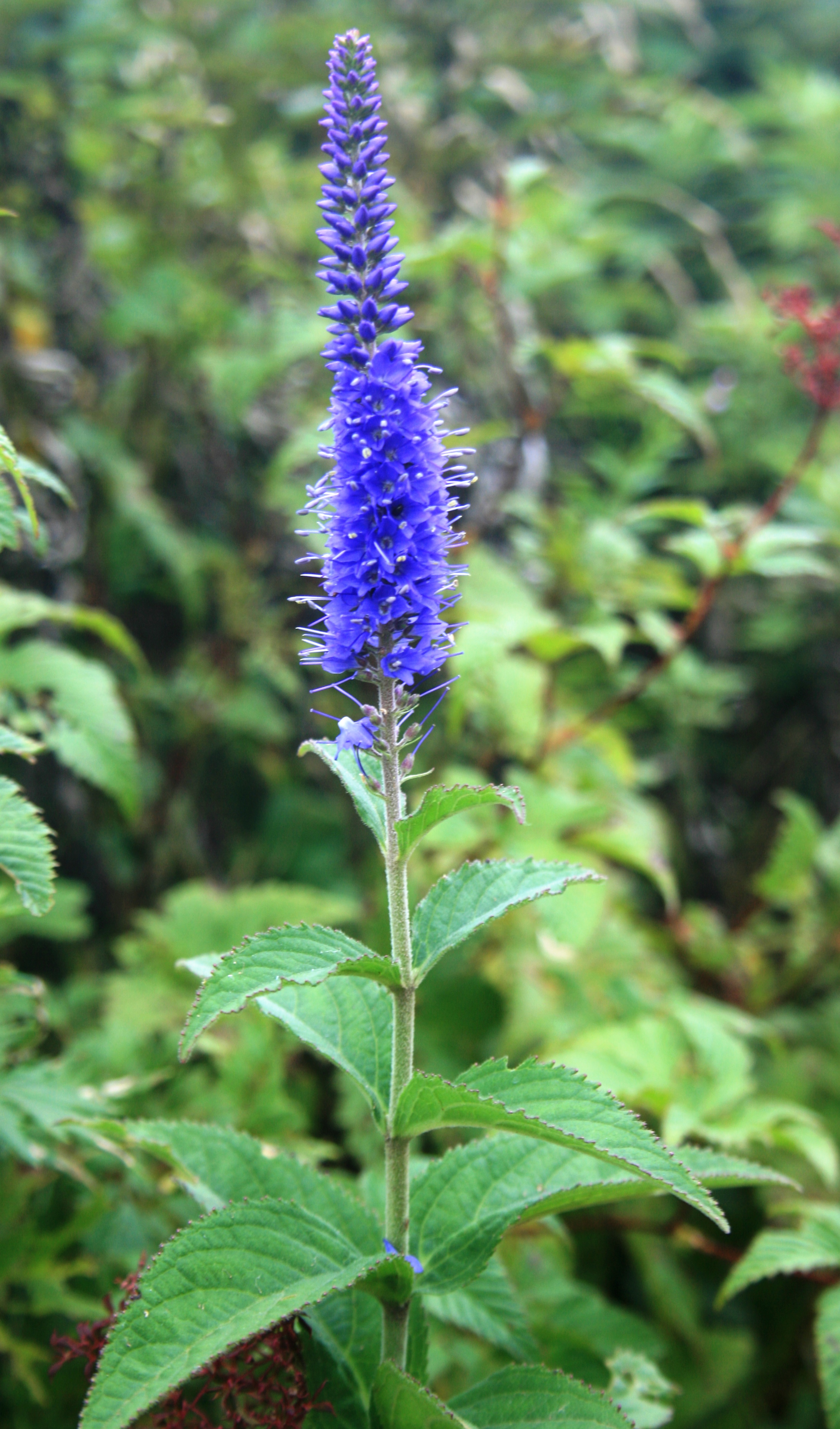 Pseudolysimachion subsessile in Mount Ibuki